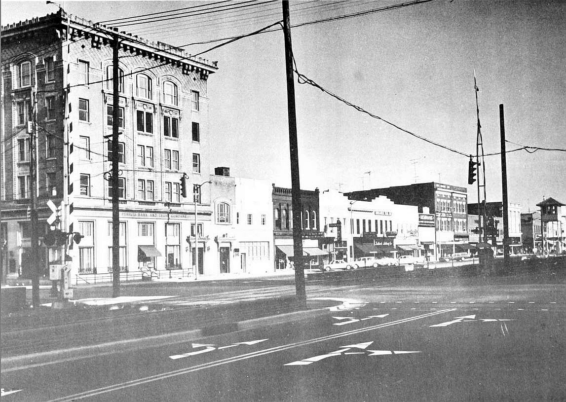 View of downtown Rocky Mount